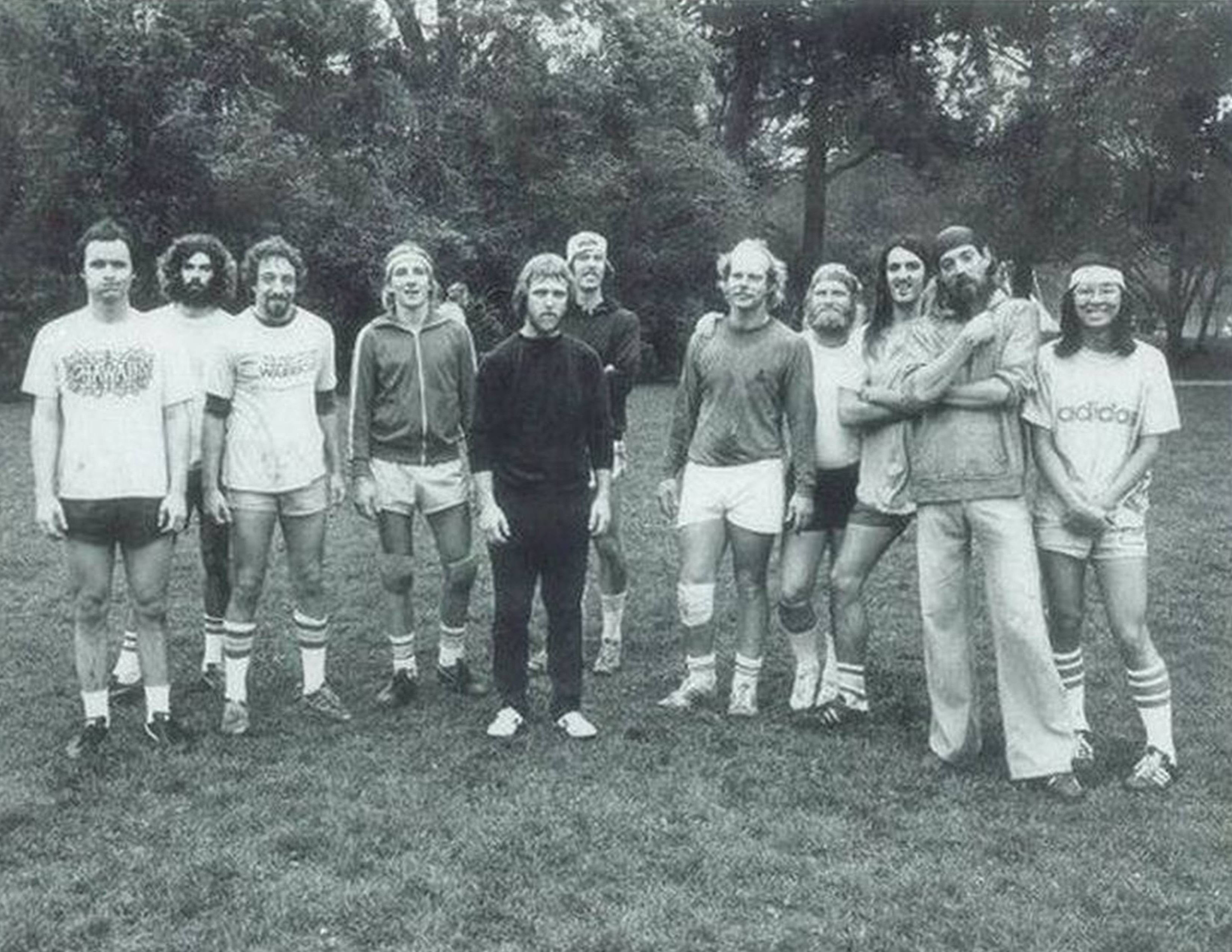 Ken Westerfield playing ultimate on the Good Times Ultimate Team in 1977. The Northern California Ultimate League.